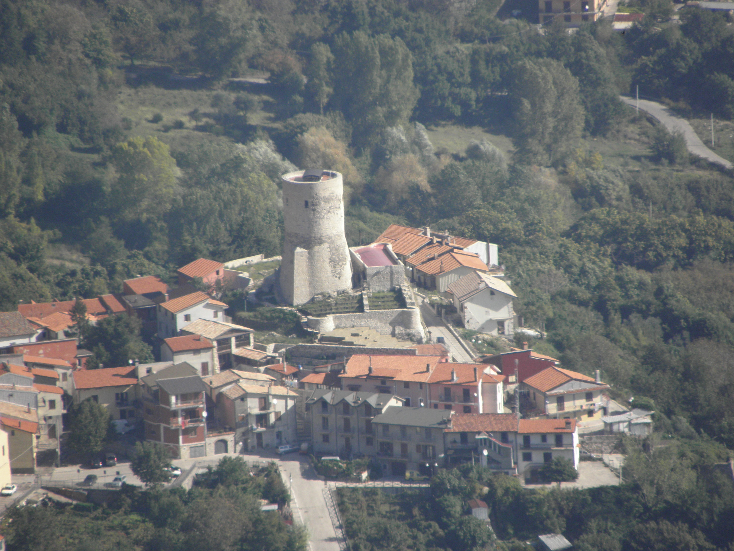 The tower and the village of Summonte seen from the sanctuary of Montevergine